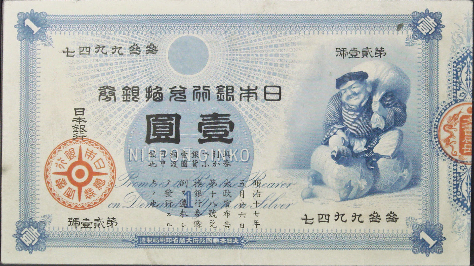 Bank_of_Japan_silver_convertible_one_yen_banknote_1885.